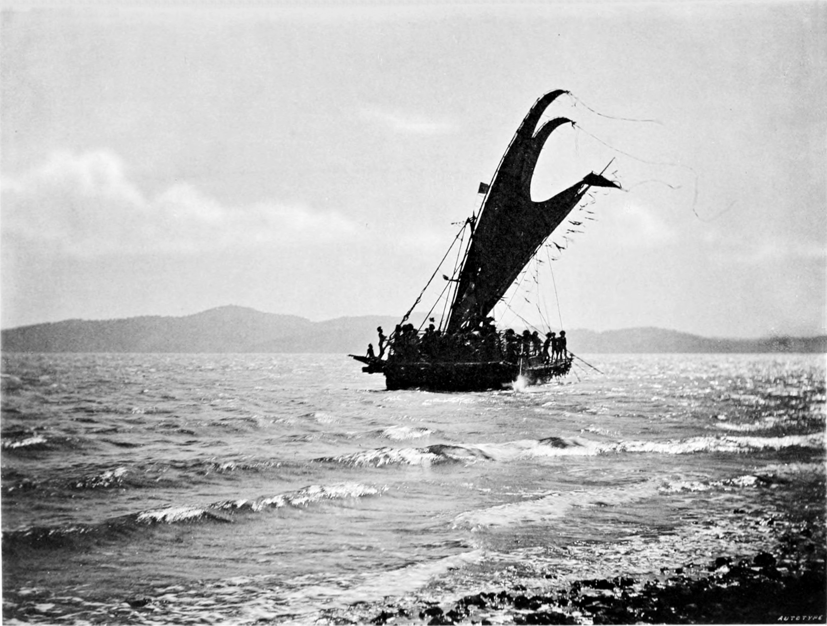 A Lakatoi, or Motu trading vessel, under sail, British New Guinea.